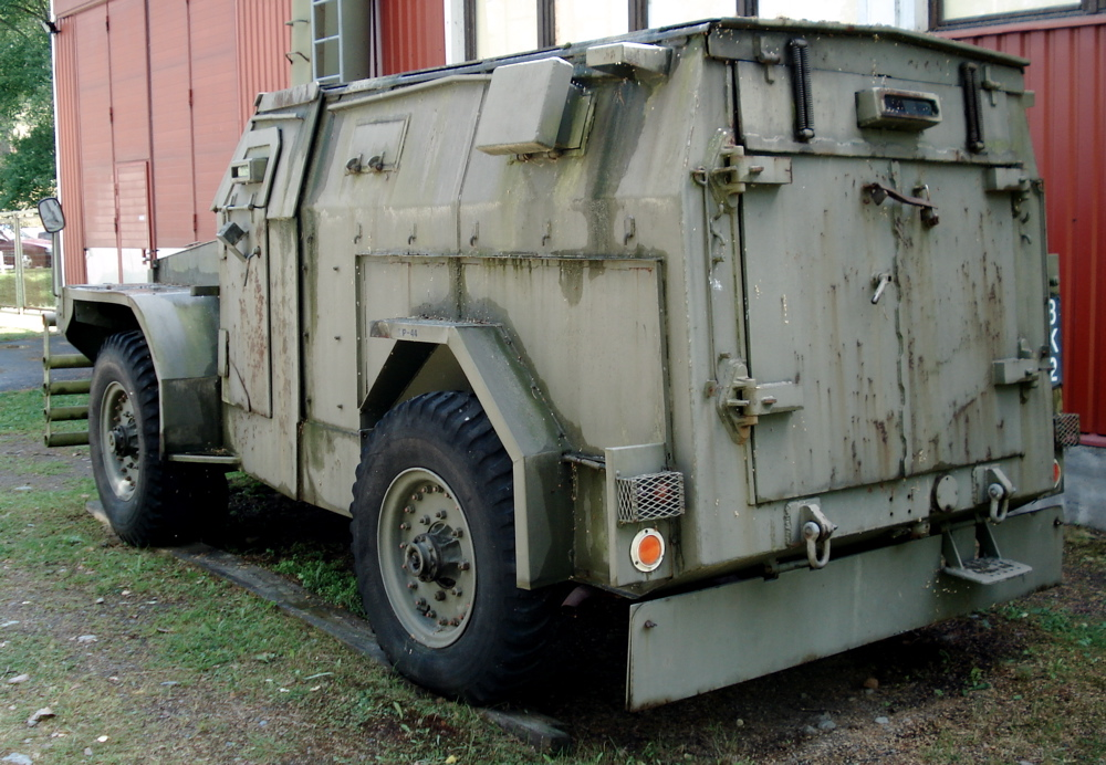 British Humber Pig APC, developed in the early 1950s. This example has the appearance it used to have when serving with the British armed forces in Northern Ireland in the 1970s. Displayed in Finnish Tank Museum (Panssarimuseo) in Parola. Photo taken on July 14, 2006. Source: Photo by me, User:Balcer.